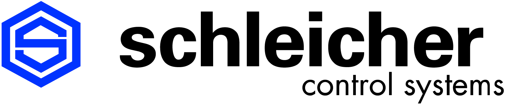 The outdated logo of Schleicher Electronics